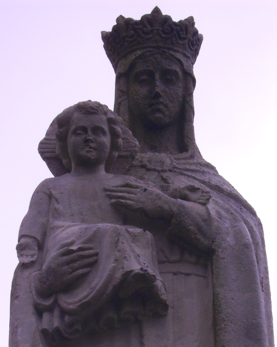 Statue of Our Lady, Virgin Mary, Penrhys, Rhondda, Wales.